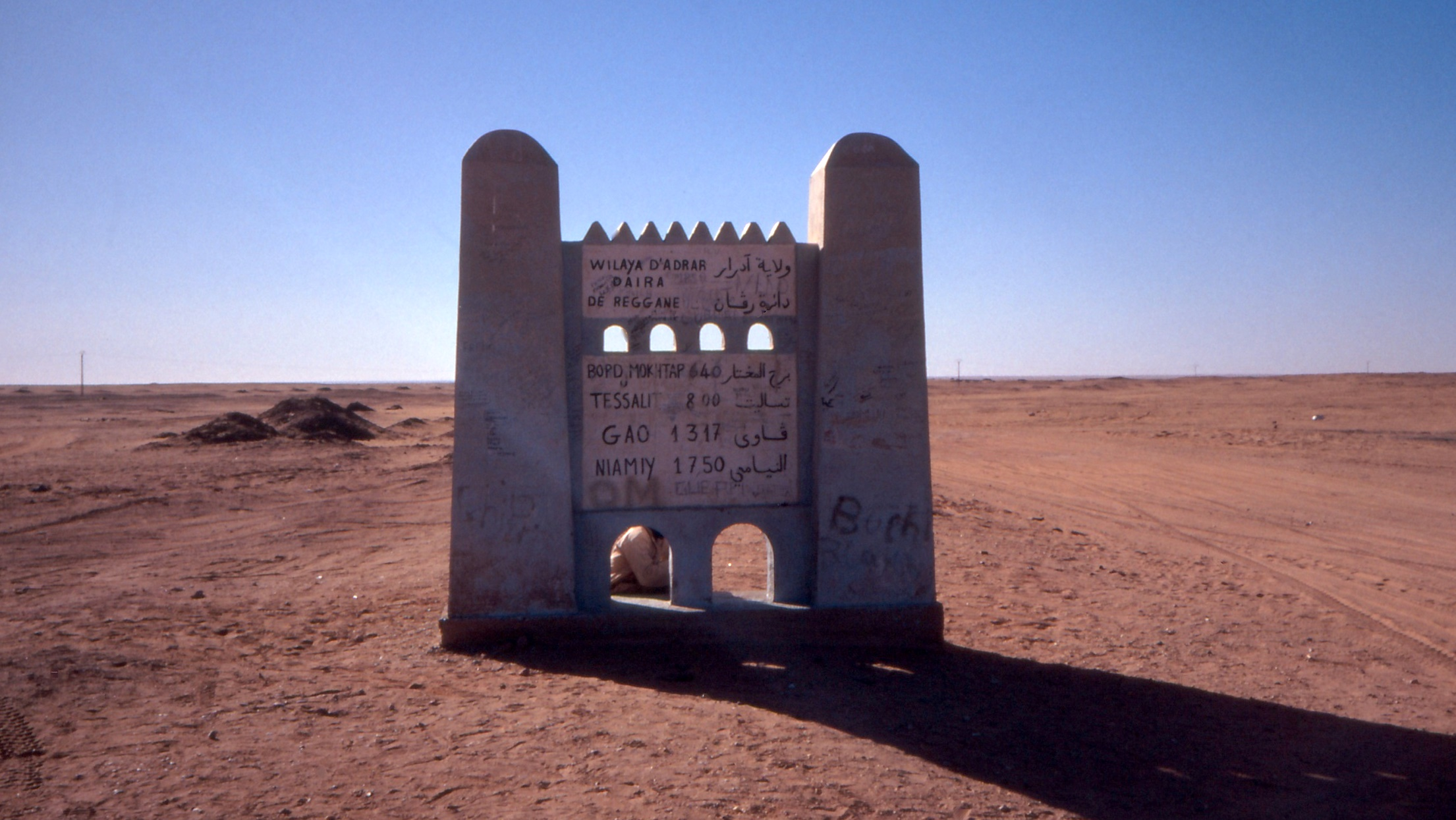 Begin of the Tanezrouft road south of Reggane, Algeria